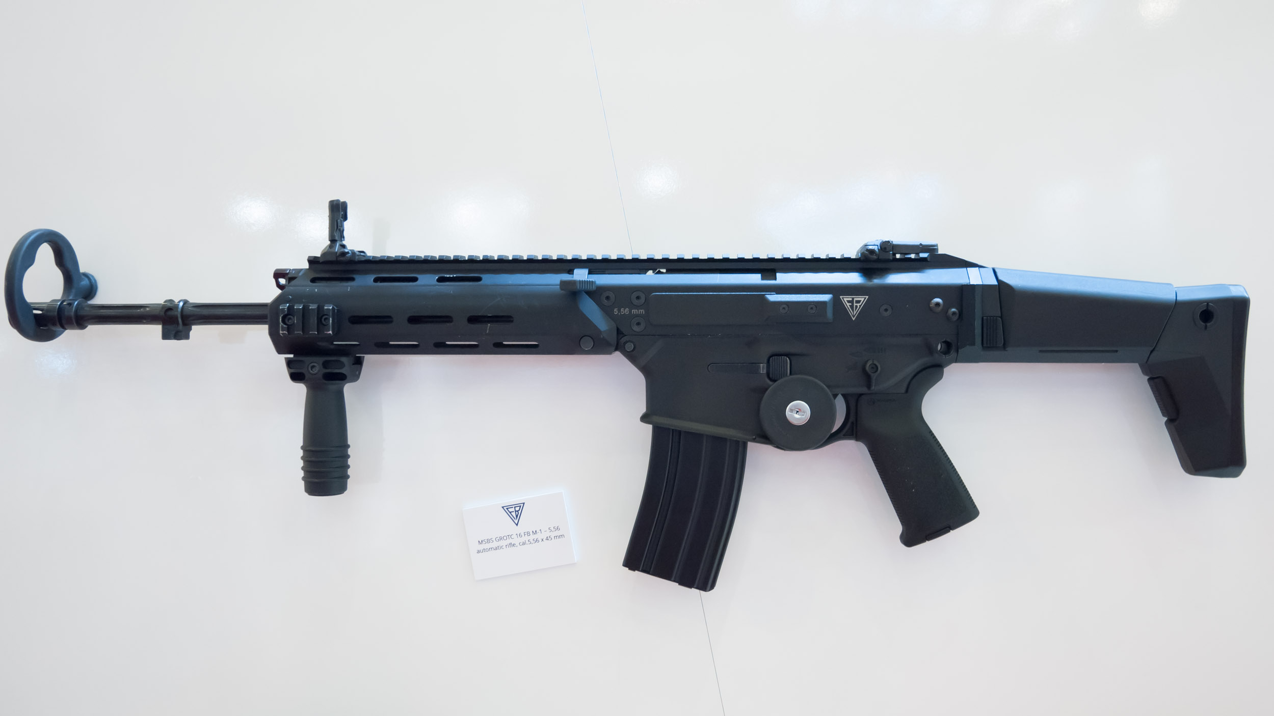 MSBS GROT modular rifle by Polish company FABRYKA BRONI "ŁUCZNIK", 'Zbroya ta Bezpeka' military fair, Kyiv, Ukraine, 2018